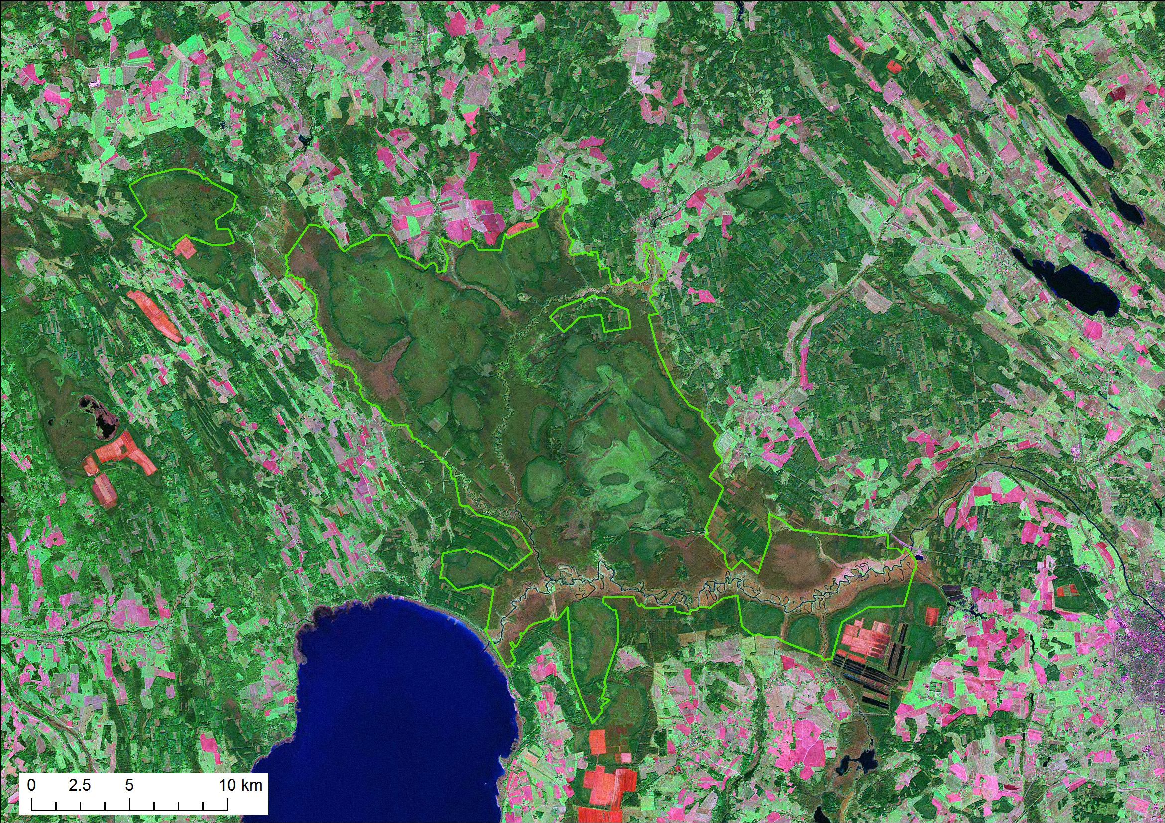 Alam-Pedja Nature Reserve in Estonia shown on Landsat satellite image (circa 2000).